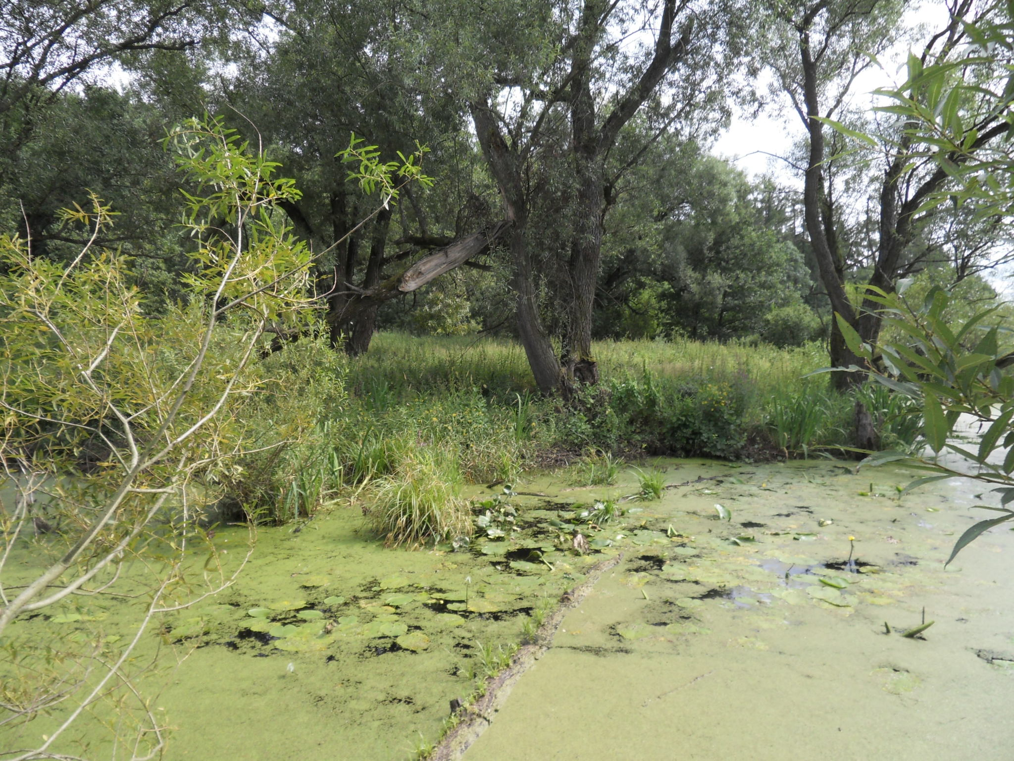 Natural monument Stará Úhlava (old Úhlava river) near Kokšín by Šihov, Klatovy District, Czech Republic.